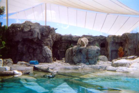 Ping, the Polar Bear, at 'Polar Bear Shores', Sea World, Gold Coast, Queensland, Australia.